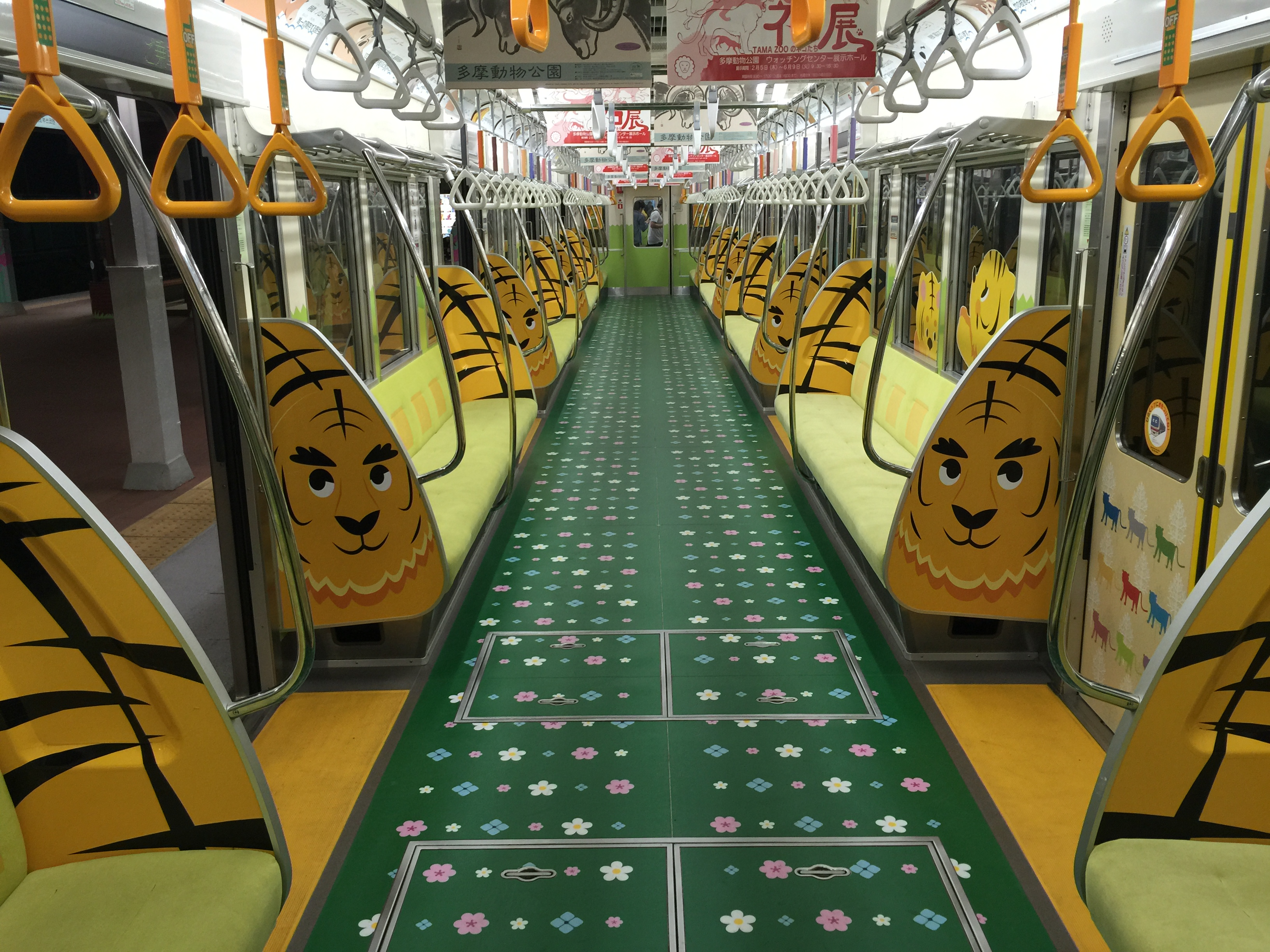 Inside Keio Motor car 7251 Tama zoo train